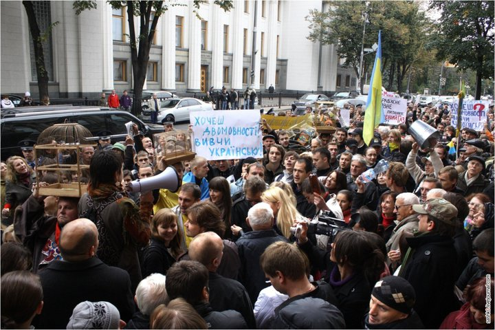 Demonstration by Ukrainian nonviolent social movement Vidsich.